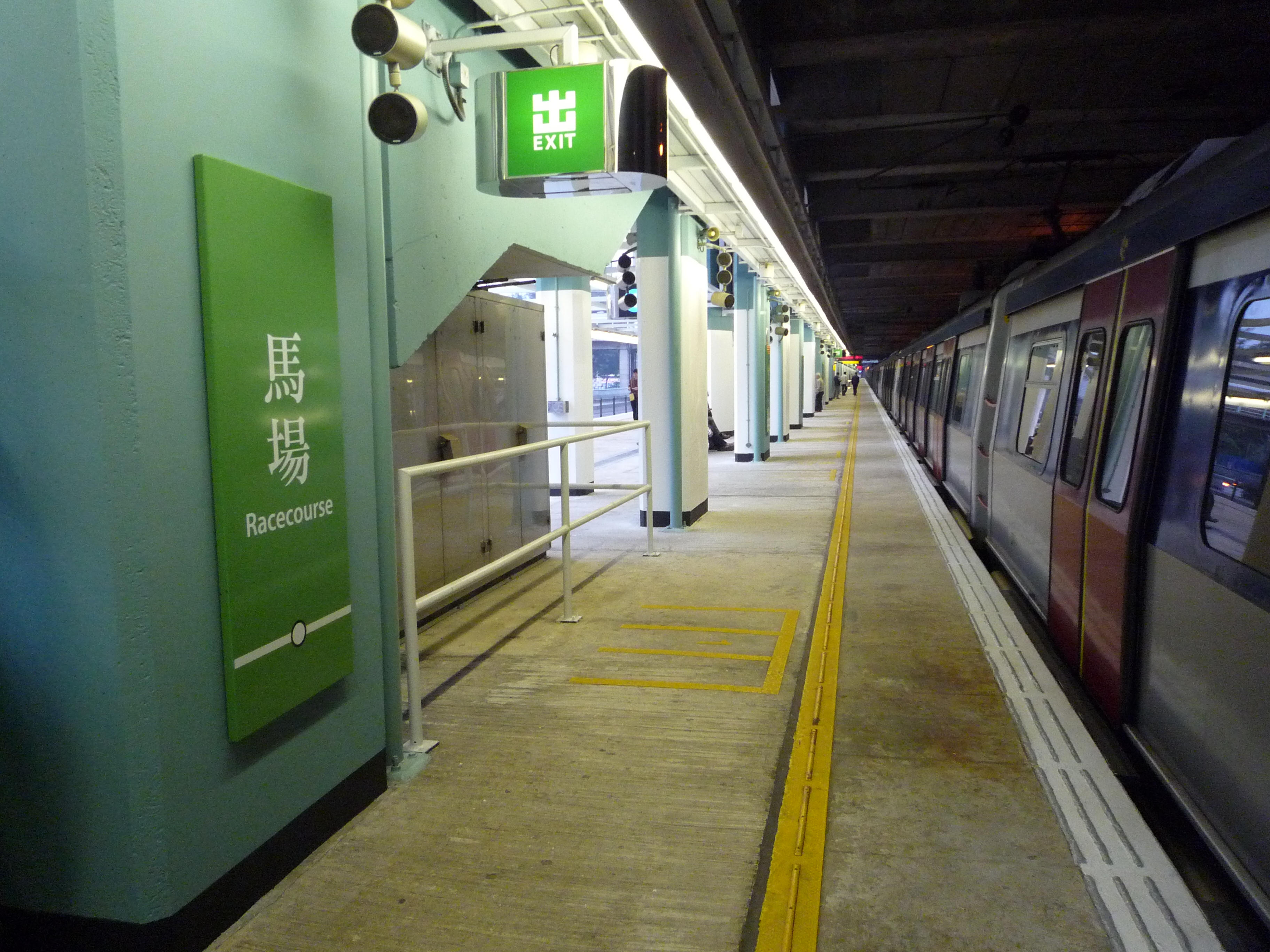 MTR Racecourse Station Station Platform 1 中文（香港）: 港鐵馬場站一號月台